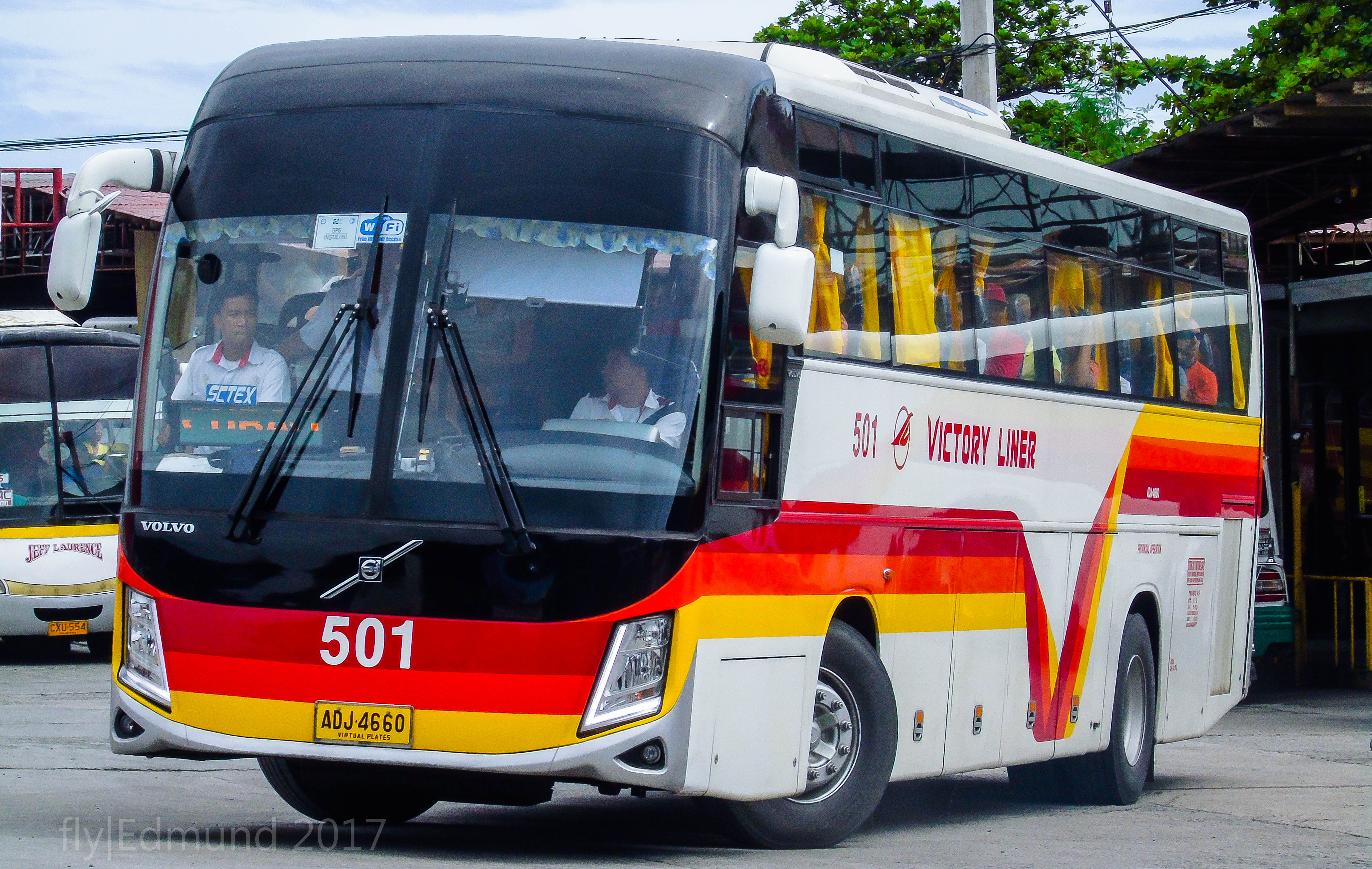 Departing Mabalacat Bus Terminal bound to Cubao, Quezon City